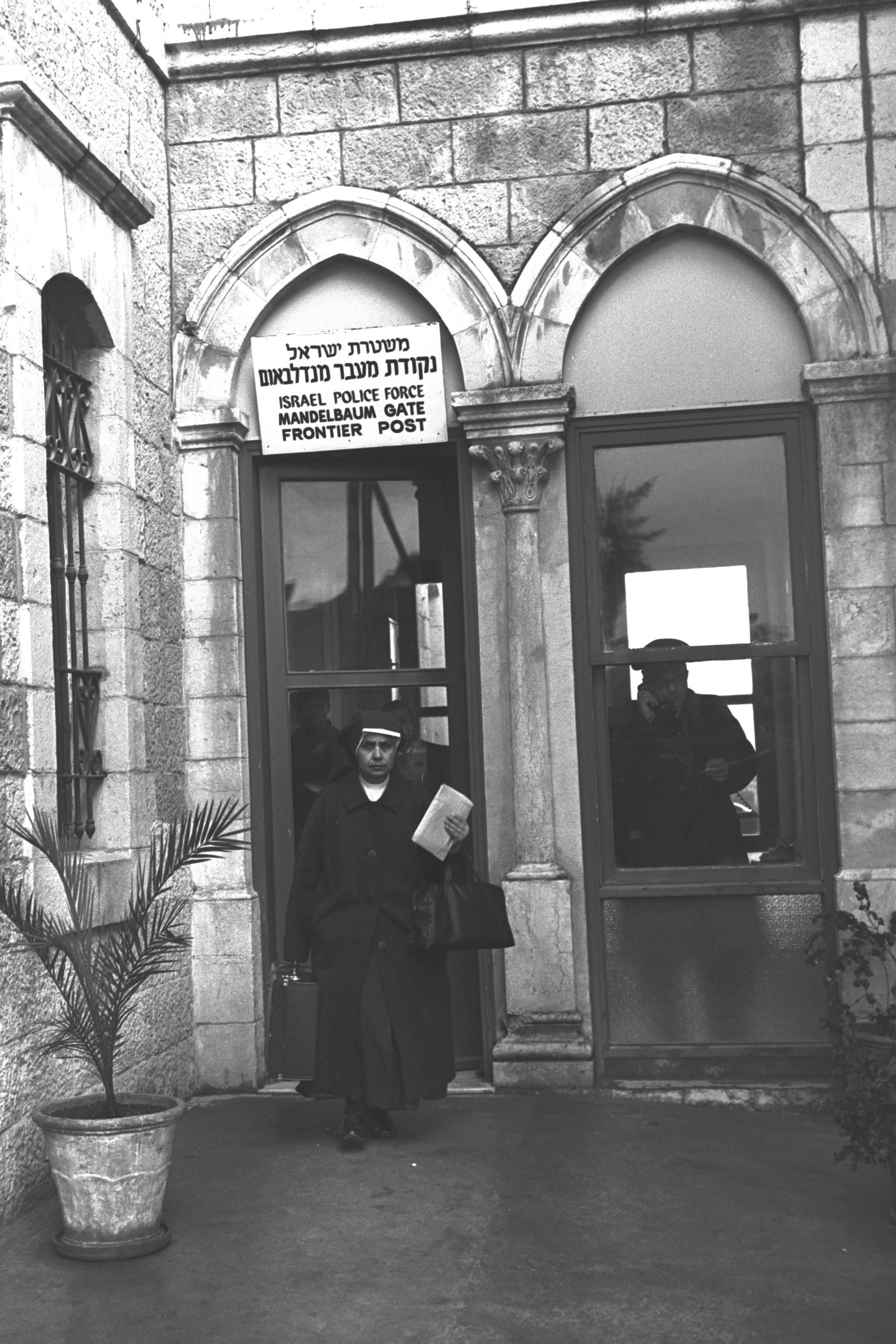 A nun leaving the Mandelbaum gate border post in Jerusalem before crossing into the old city in Jordan, for the Christmas holiday celebrations (24/12/1965)